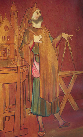 William Burges, English architect